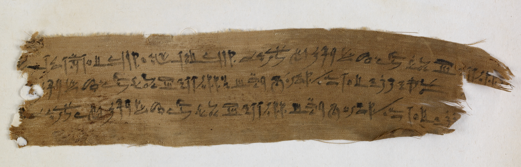 Mummy bandages were in use from the Late through the Ptolemaic period, ca. 6th-2nd centuries BC. They were usually decorated with spells and sometimes vignettes from the "Book of the Dead" in order to deliver the desired magical protection for the deceased. The practice of placing inscribed bandages directly on the body of the dead person was essential to securing a good life for the deceased in the Netherworld. This small strip of fabric is woven of high-quality linen and belongs to the well-known object group of inscribed mummy bandages. The originally light beige linen is now discolored to a darker brown. Both side ends of the bandage are lost and irregularly torn off. The original length is unknown, but might have extended to ¾ of an Egyptian cubit (= 39.15 cm = 15 3/8 in.). The inscription is composed in hieratic script and rendered in black ink (made of soot mixed with gelatin, gum, and bee wax); the color has slightly faded. The text consists of three lines; the beginnings and ends of the sentences are missing; but the losses seem to be minor judging by content and grammar.